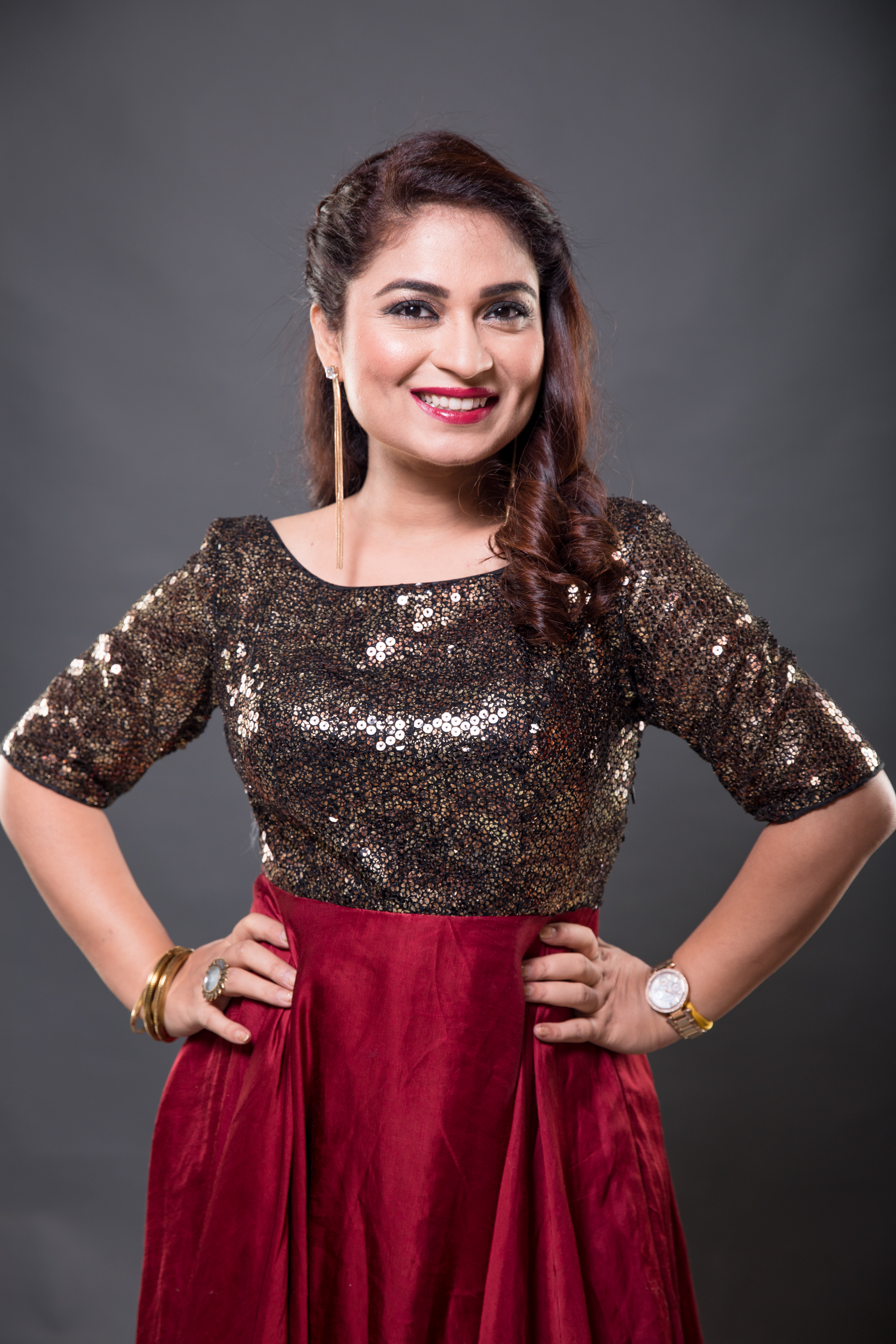 Supriya Joshi Photo Shoot for her Upcoming Album